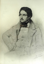 Charles Lenormant (1802, Paris - 1859), French art historian and archaeologist.